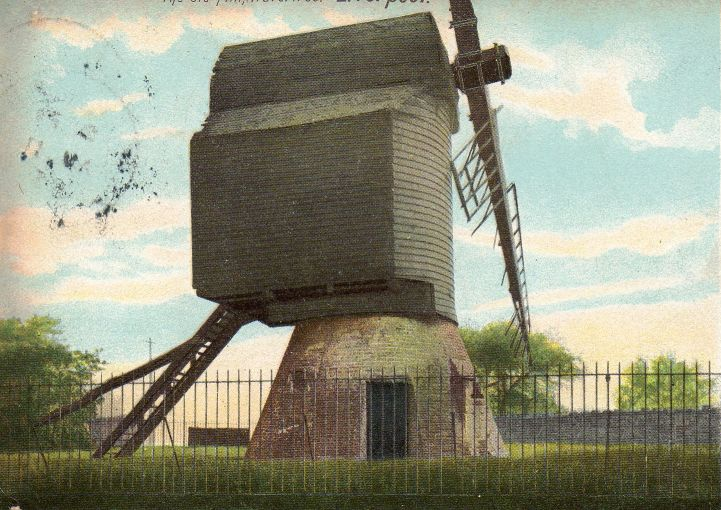 The windmill at Wavertree, Liverpool from a postcard published by E Wrench, London. Postally used 11-8-1905.